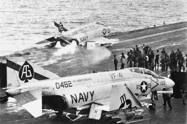 Two U.S. Navy F-4B-14-MC Phantom II (BuNo 150482, 150485) from Fighter Squadron VF-41 Black Aces launching from the aircraft carrier USS Independence (CVA-62) for a strike in Vietnam. VF-41 was assigned to Carrier Air Wing 7 (CVW-7) aboard the Independence for a deployment to Vietnam from 10 May to 13 December 1965.